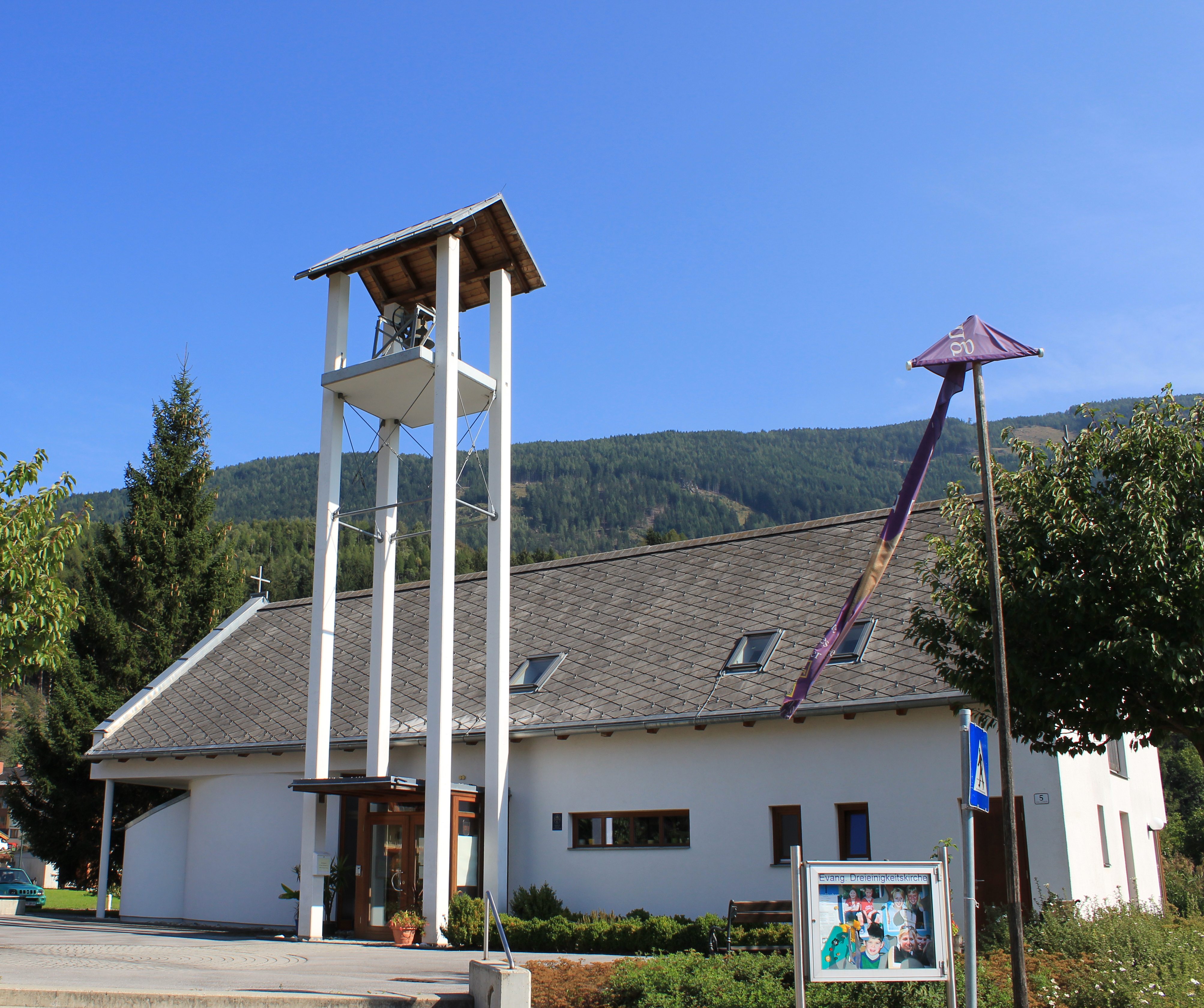 Lutherian church in Gmünd